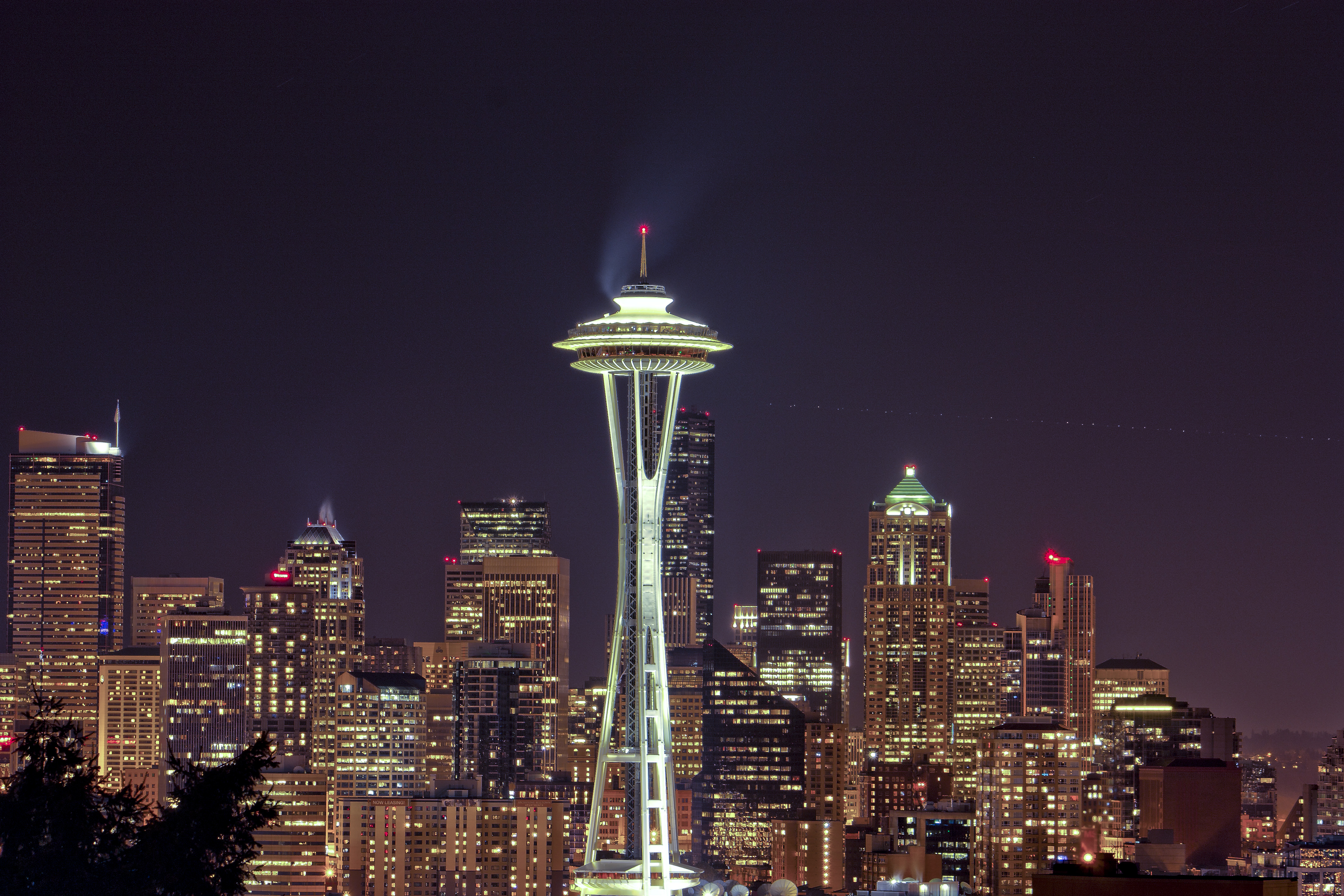 Space needle at night as seen from Kerry park and on rare clear night.